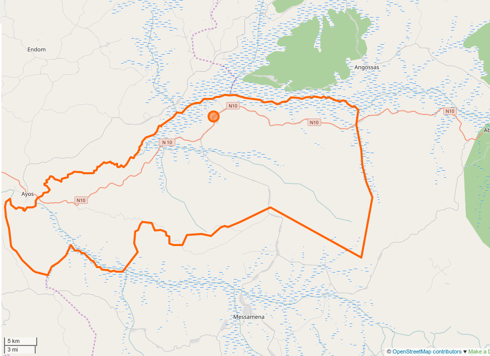 Atok in Cameroon, city boundaries with OSM. This map may be incomplete, and may contain errors. Don't rely solely on it for navigation.